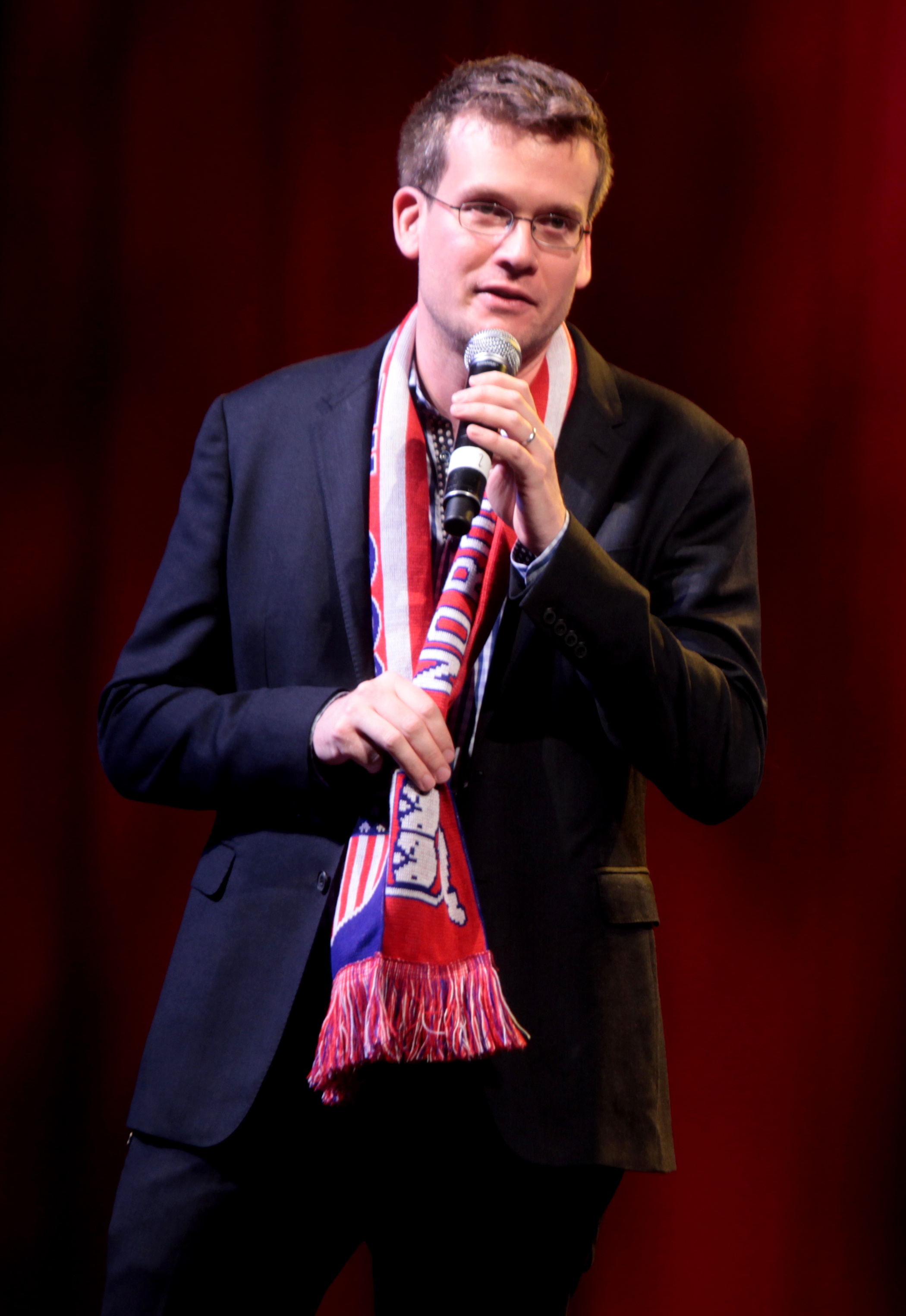 John Green speaking at the 2014 VidCon on June 28, 2014.